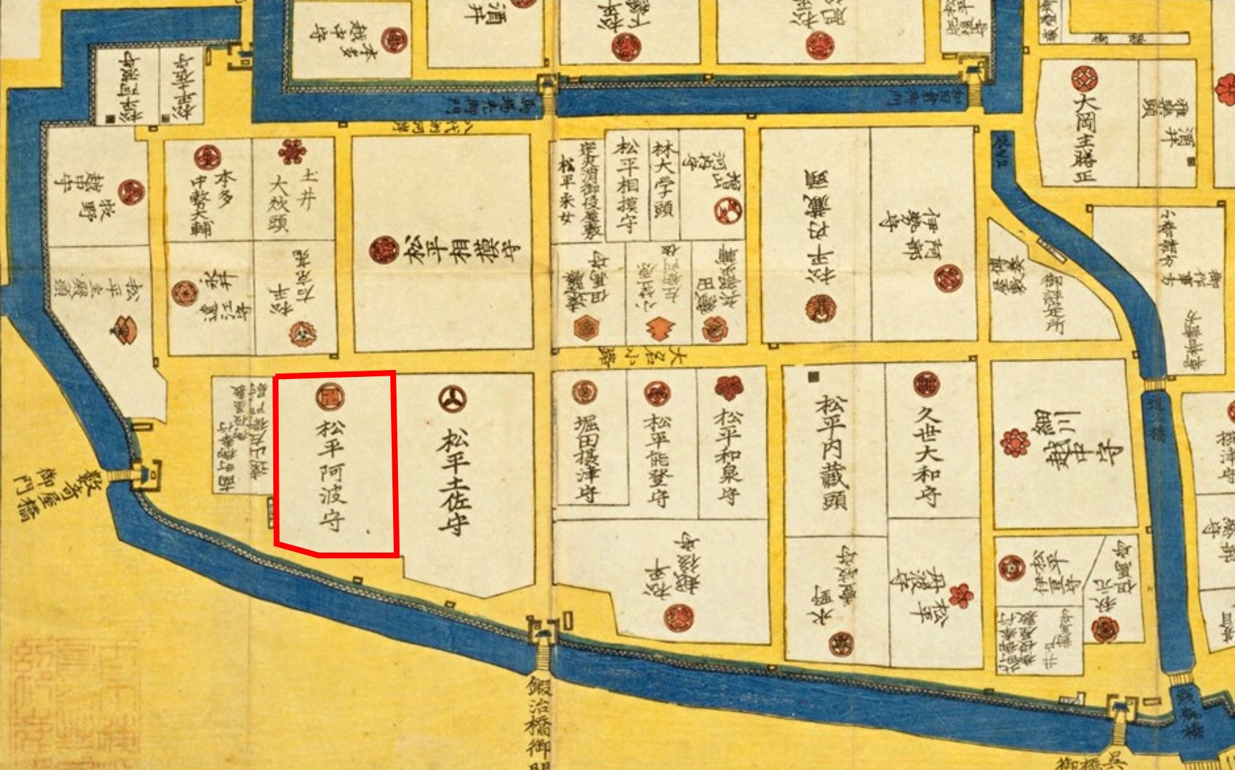 Hachisuka residence at Edo